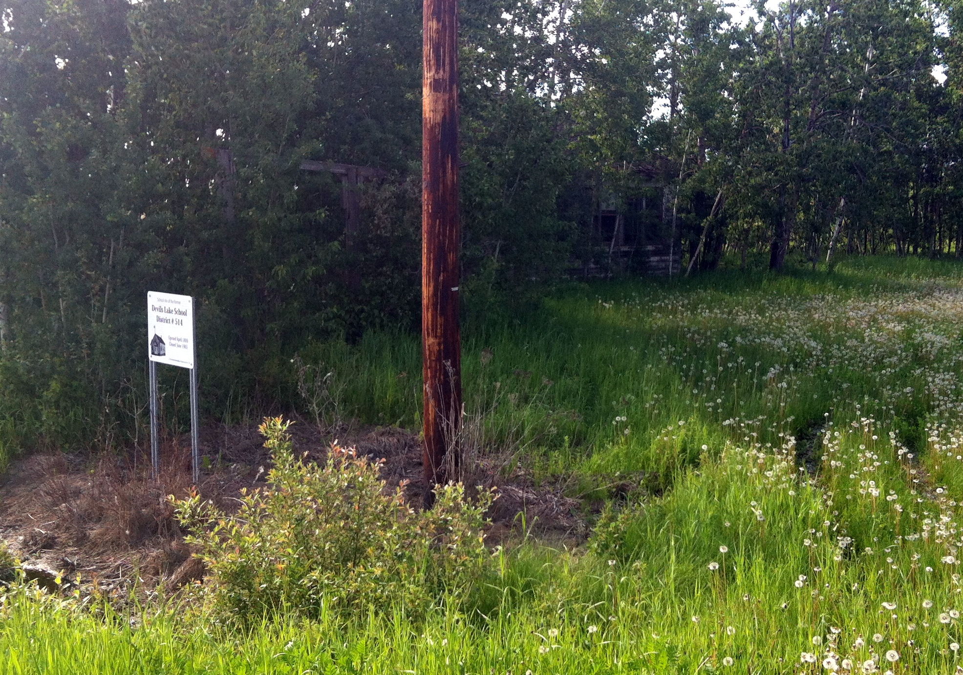 The one room school for the former Devils Lake School District #514. Near Good Spirit Lake (Formerly Devils Lake), Saskatchewan.